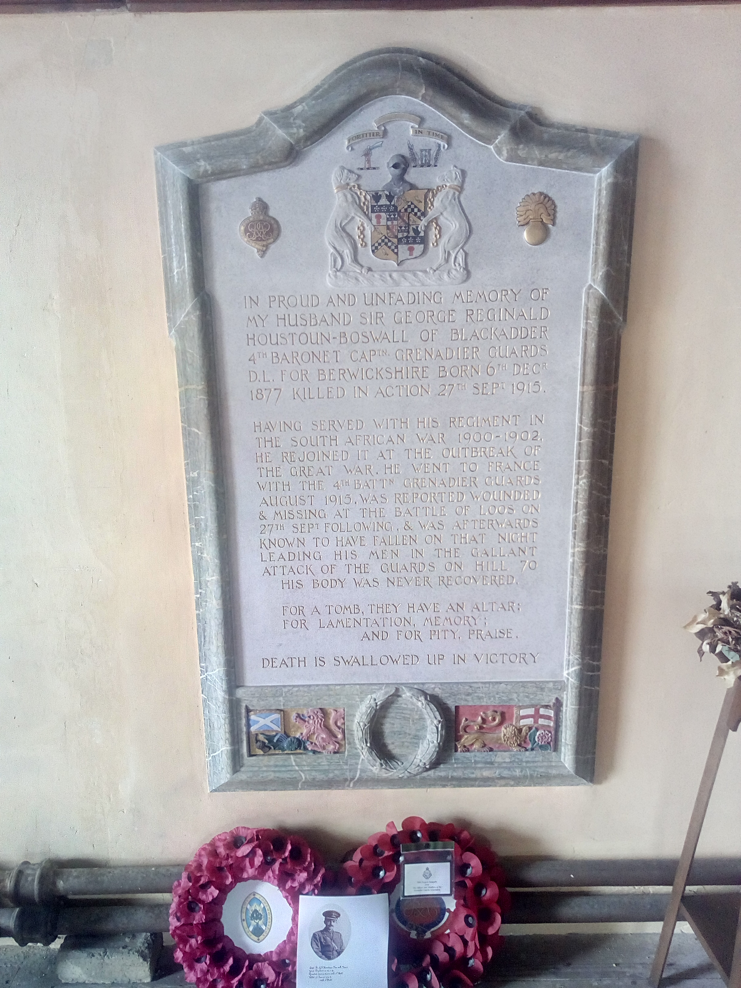 Village of Edrom in Scottish borders